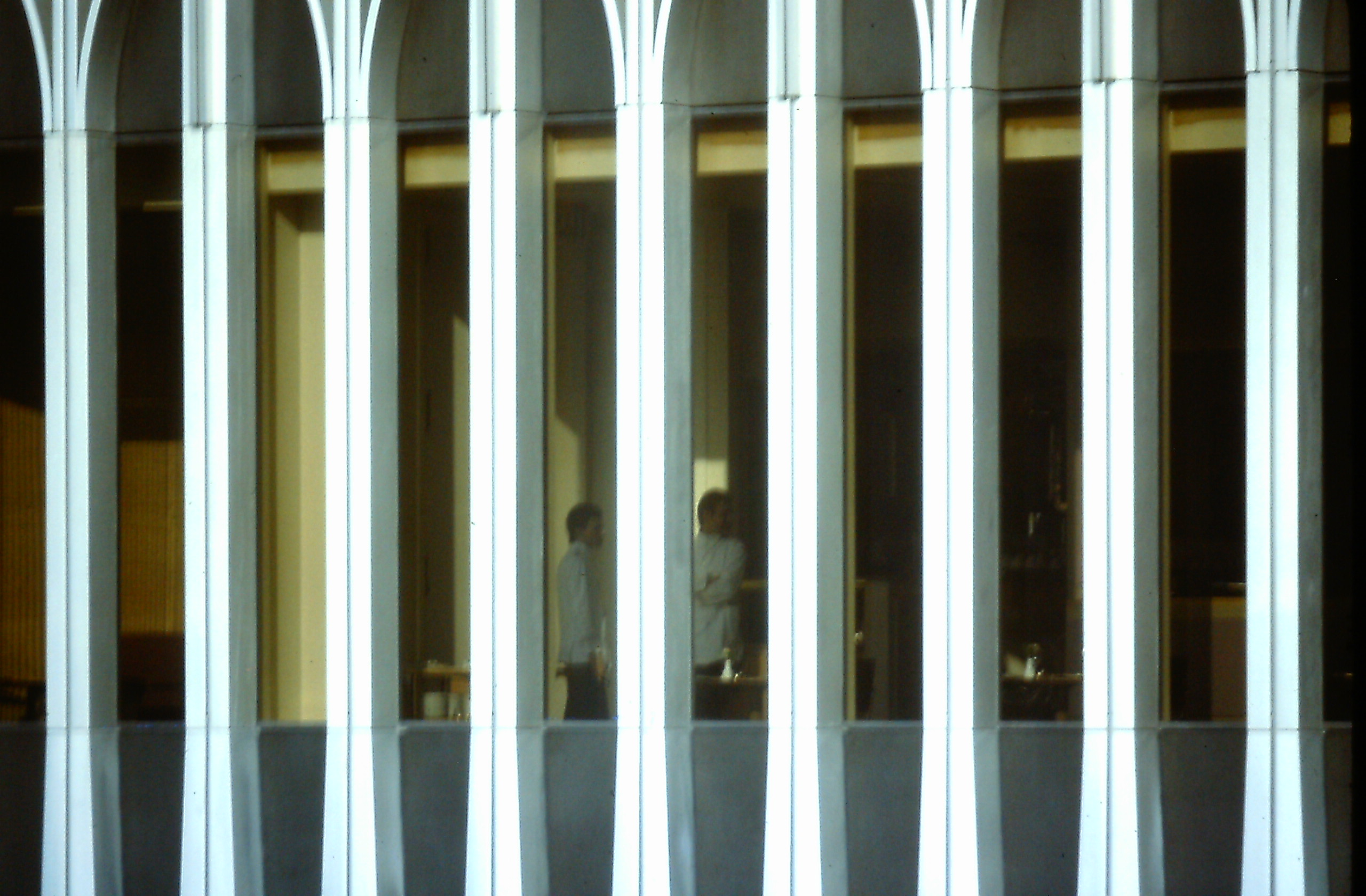 107th floor of the World Trade Center